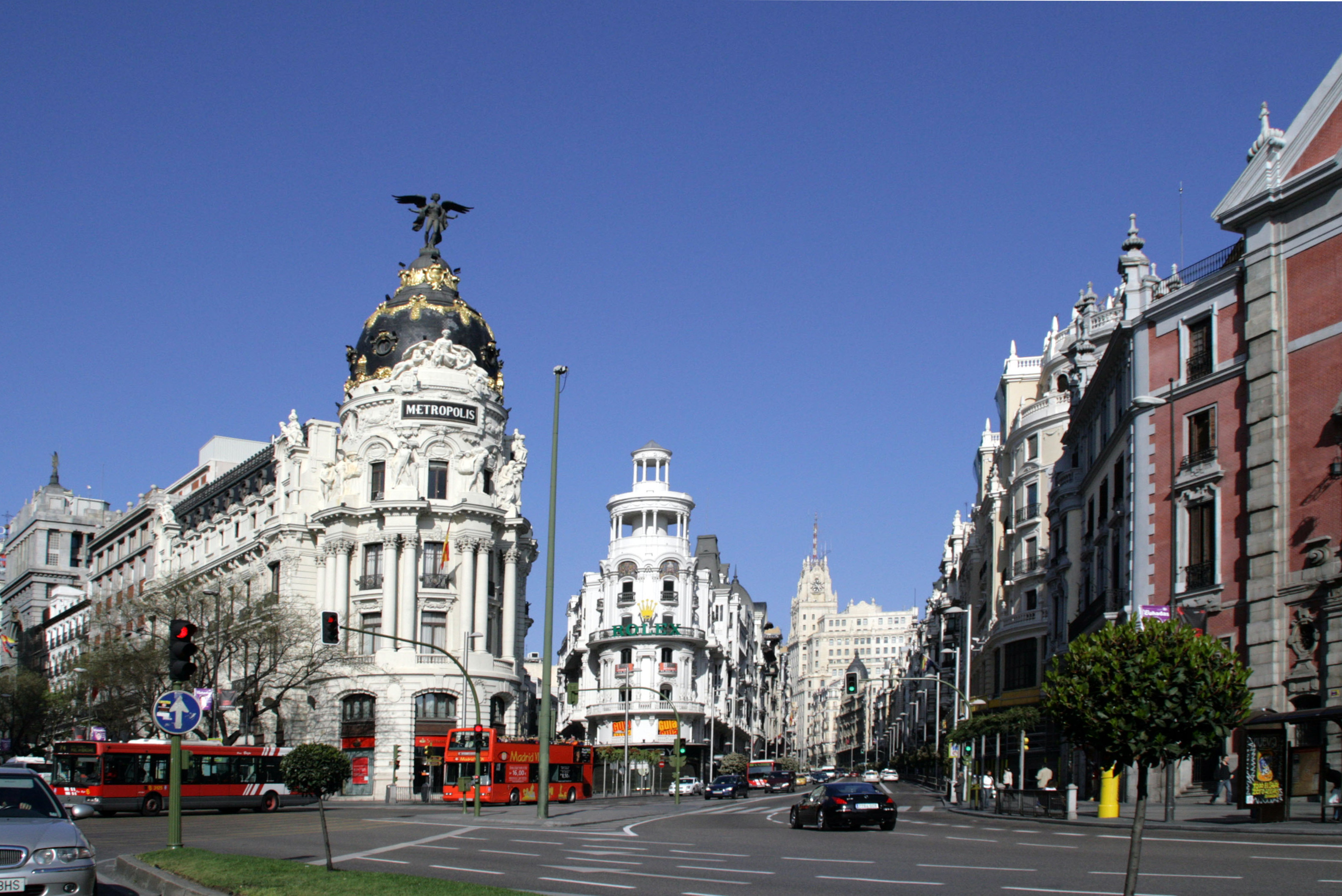 View from Calle de Alcalá (street) in Madrid (Spain). Left: Metropolis Building (1911). Centre: beginning of Gran Vía (street). Right: St. Joseph's Church.